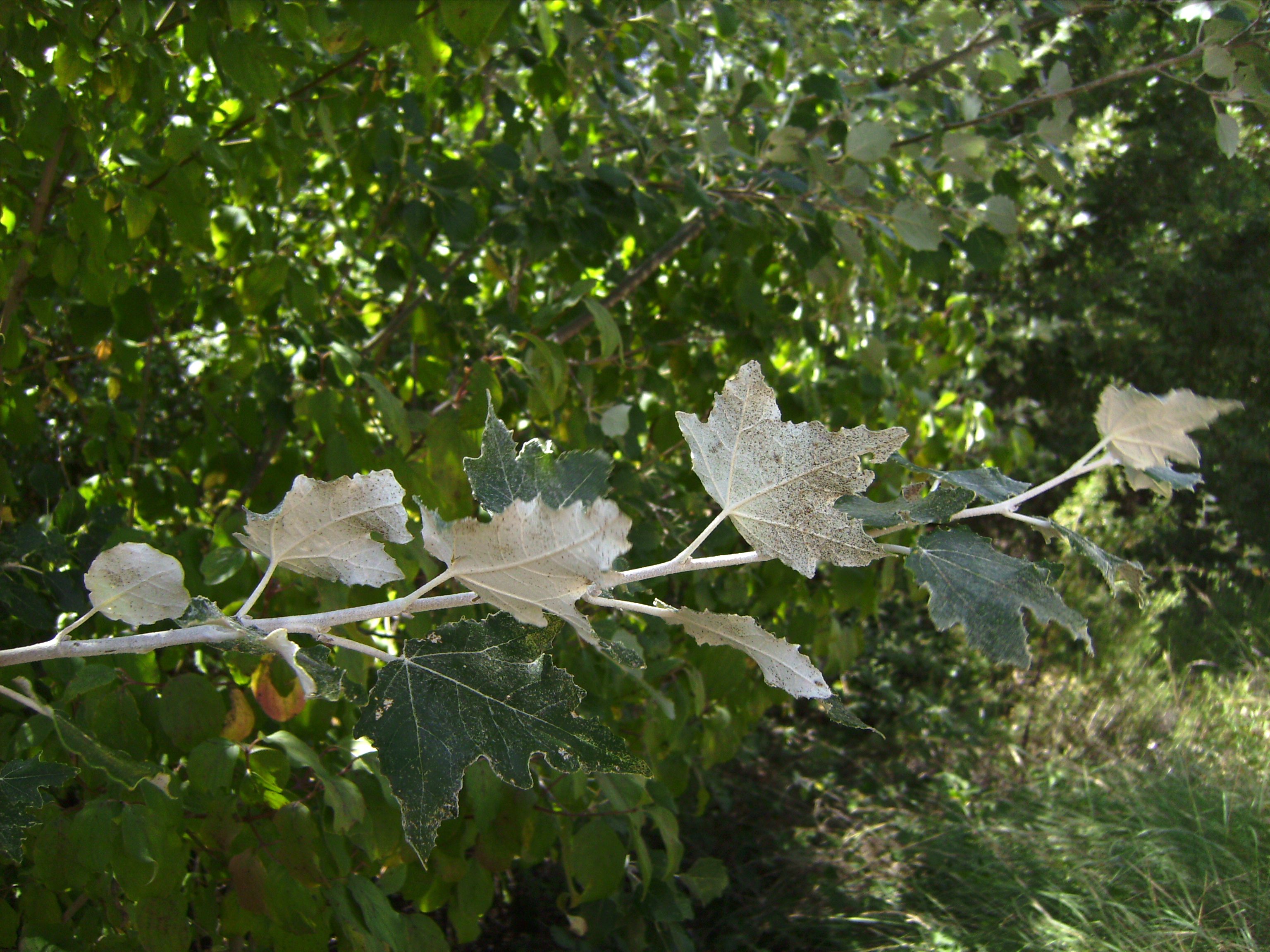 Populus alba, branch ad leaves, Castelltallat, Catalonia